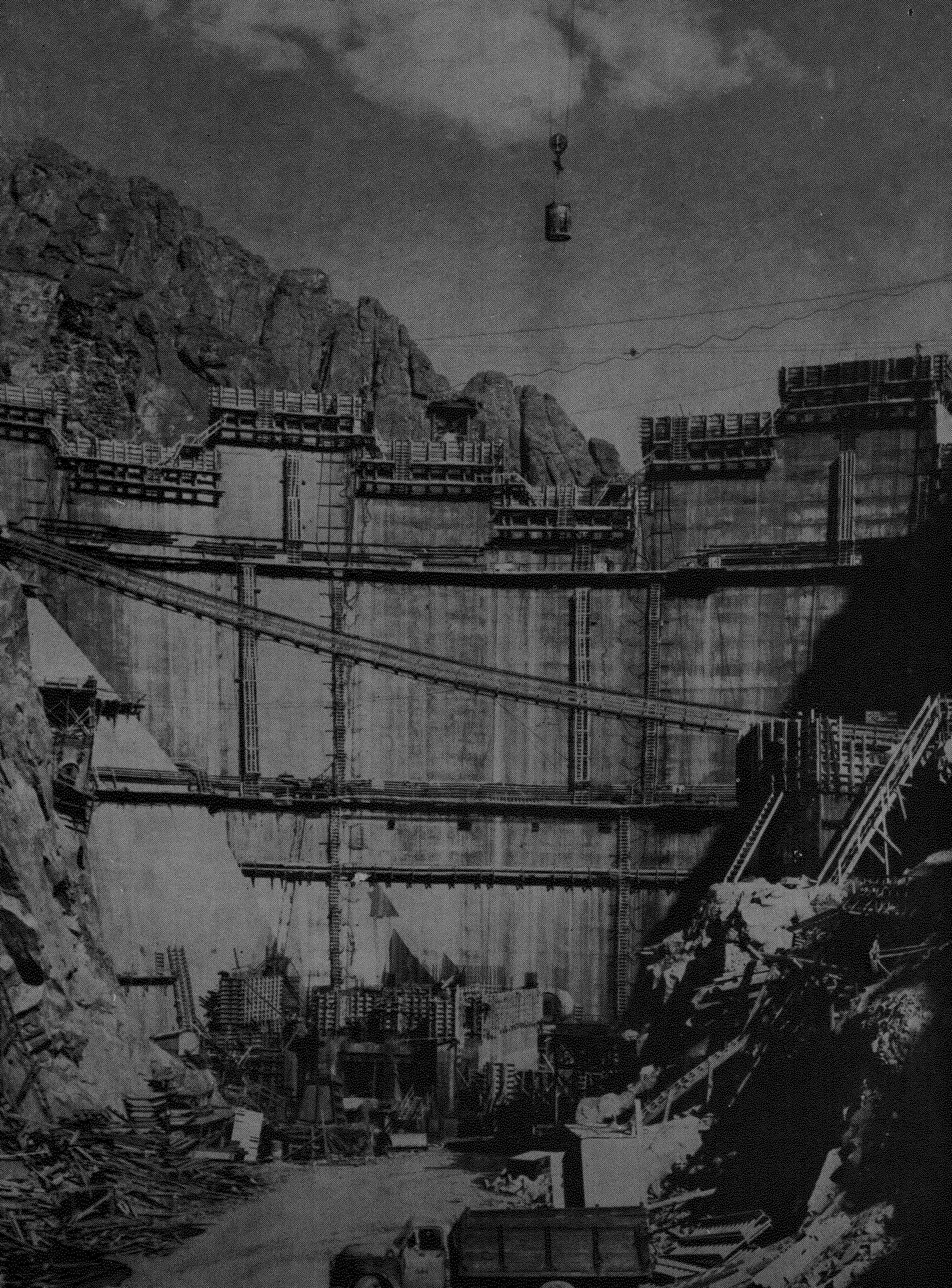 Karaj Dam, Iran